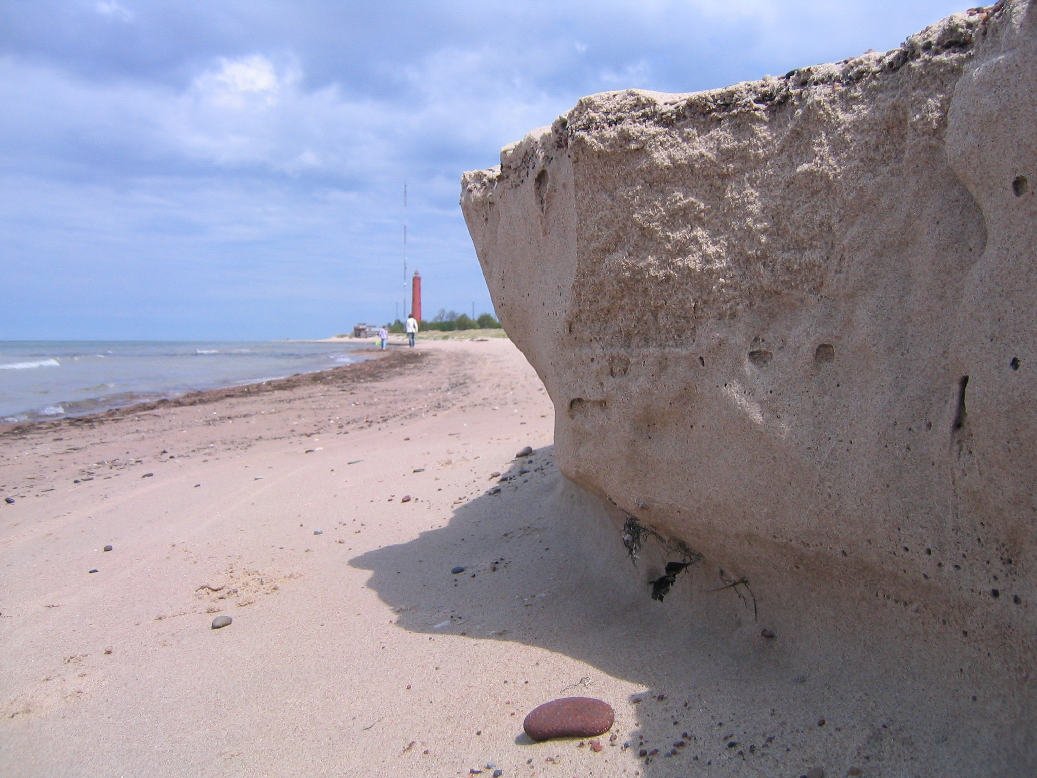 Cape Akmensrags in Latvia